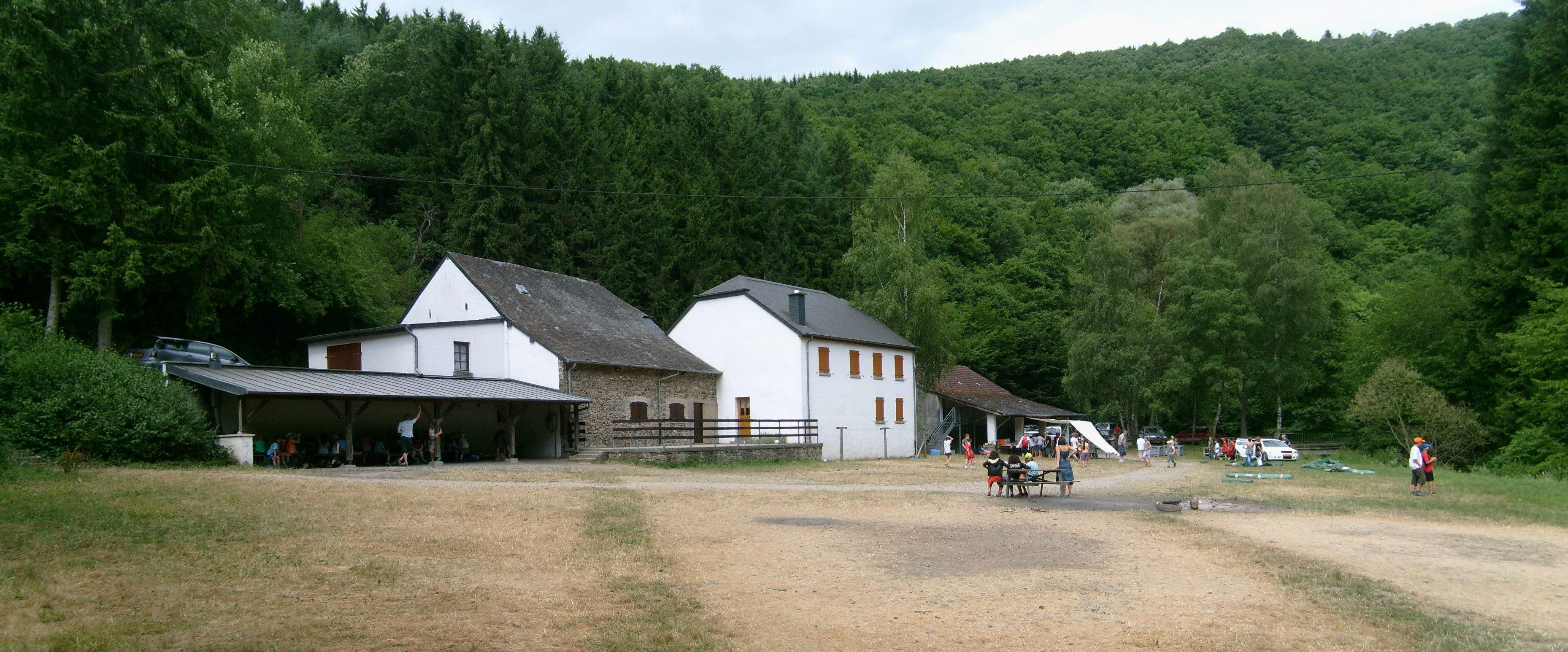 The former mill Tutschemillen near the town of Wiltz, Luxembourg. Today a scouts camp.